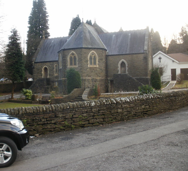 St Margaret's Church, Blackwood Located near the north end of High Street, Blackwood, set back about 20 metres from the west side of the street. The view of the front of the church from High Street (from the east) is obscured by trees, so this view is from the northeast through a gap in the trees.